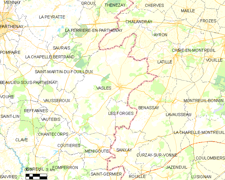 Map of French municipality Vasles